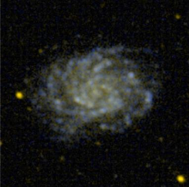 An ultraviolet image of NGC 5398 taken with GALEX. Credit: GALEX/NASA